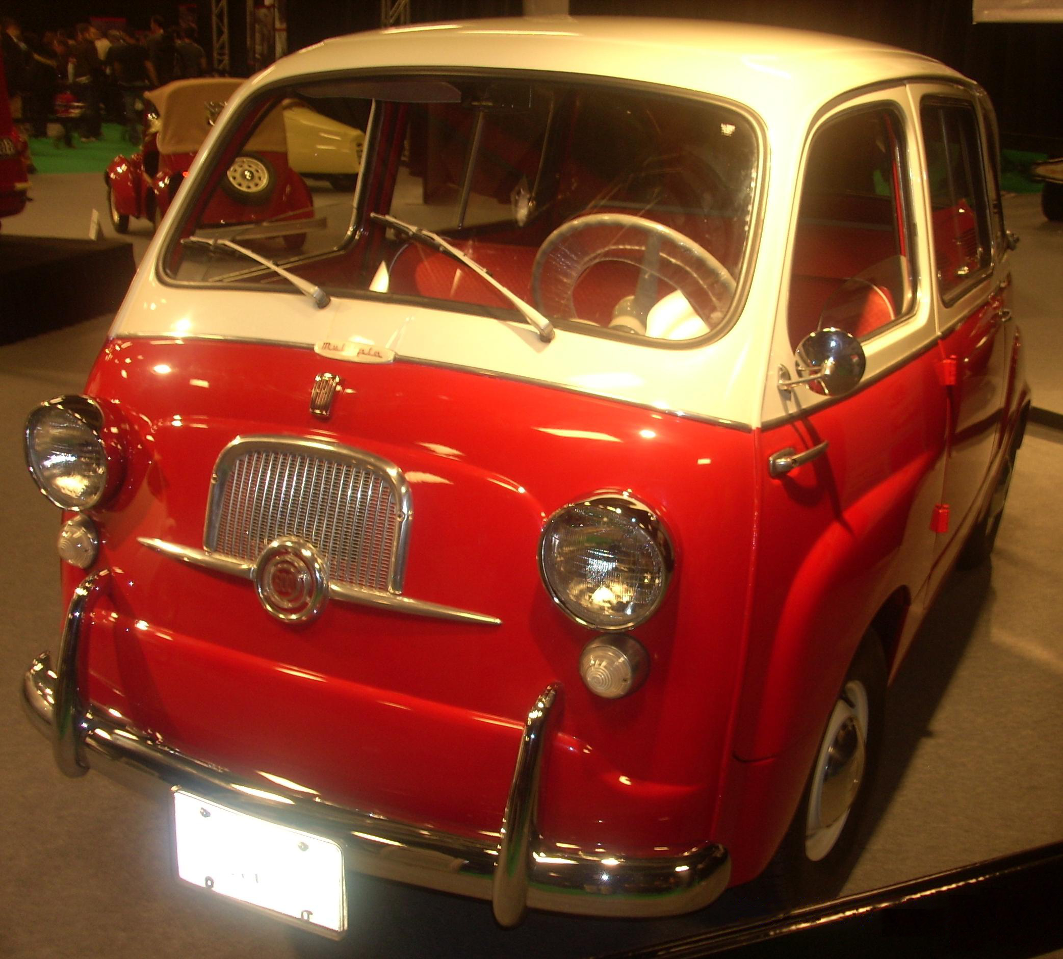 1959 Fiat 600 Multipla photographed in Montreal, Quebec, Canada at the 2010 Montreal International Auto Show.